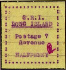 Stamp of British post in Long Island (British Occupation), Ottoman Empire, 1916, typewritten, ½d, mauve, variety '7' for '&', SG #6.